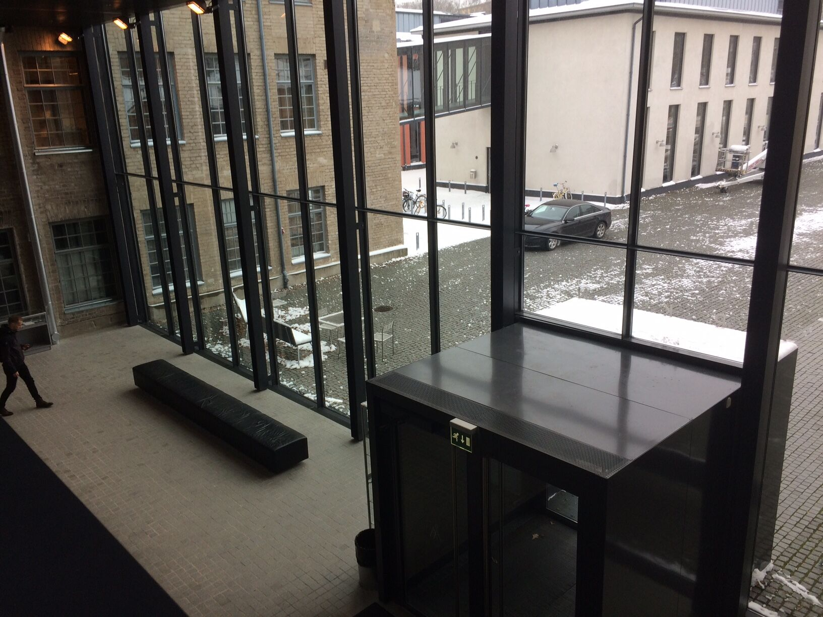 Der Haupteingang zu Arken Åbo Akademi